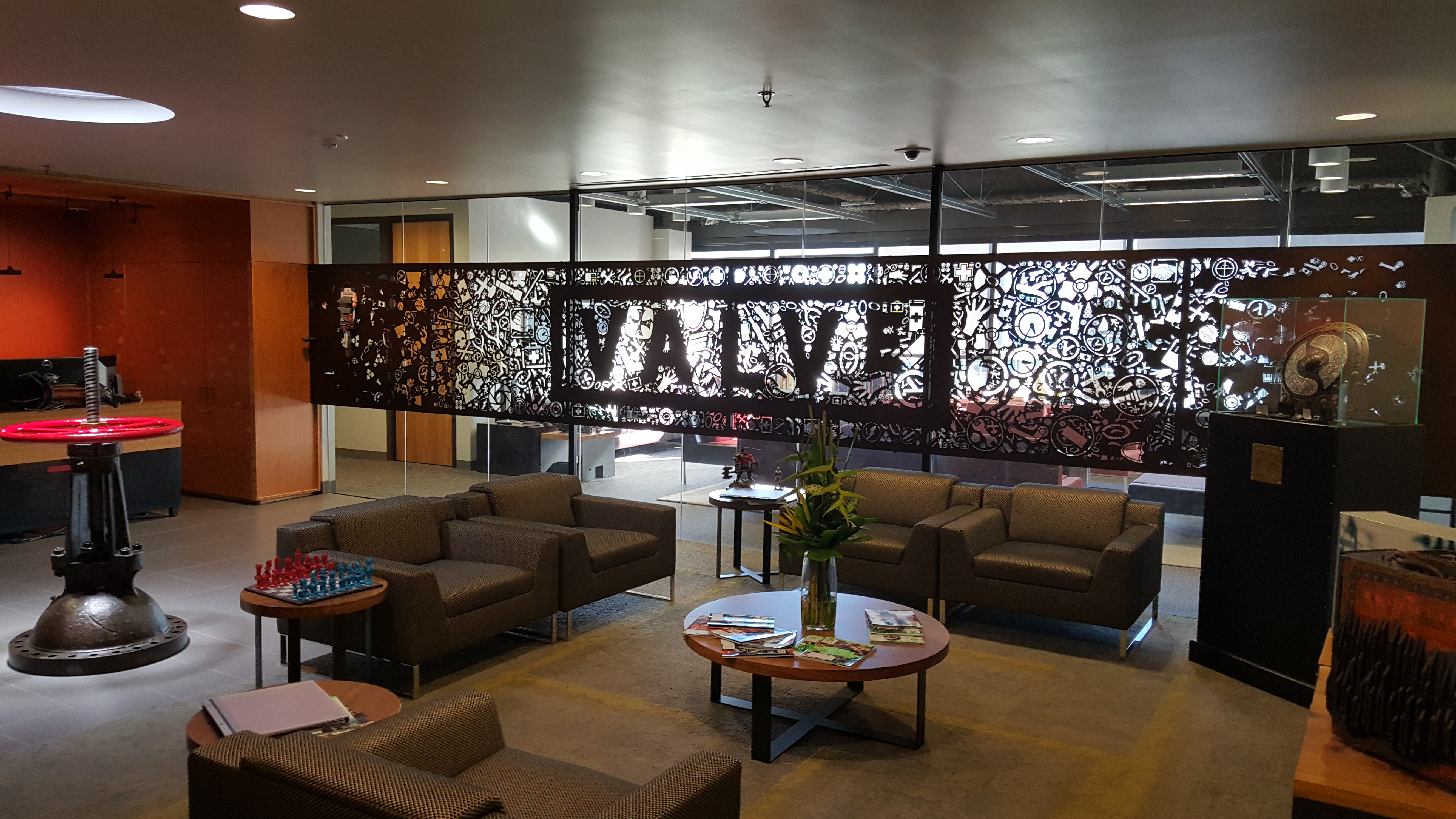 Lobby Area of Valve's offices in February 2016.